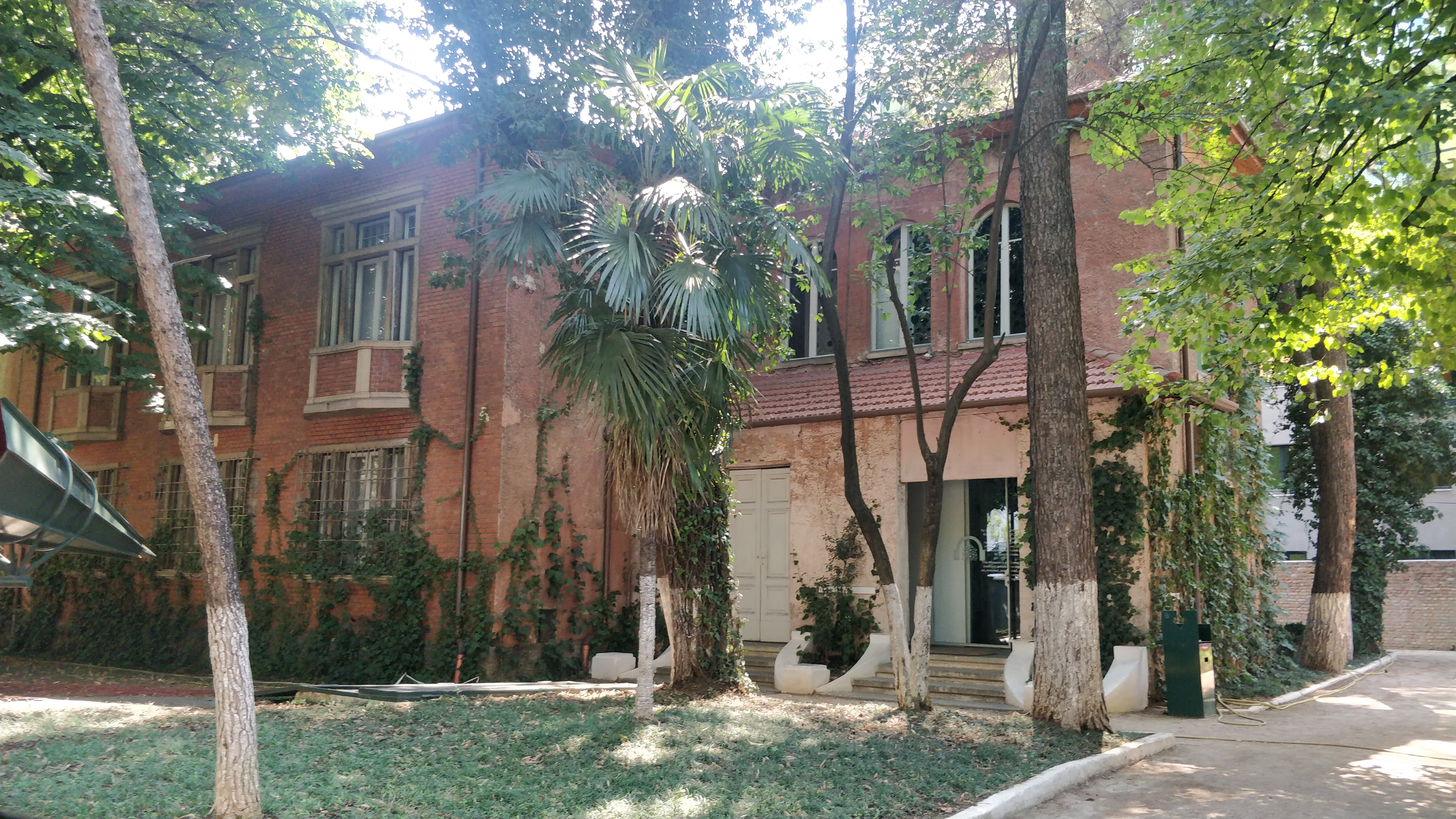 Museum of Secret Surveillance, Tirana